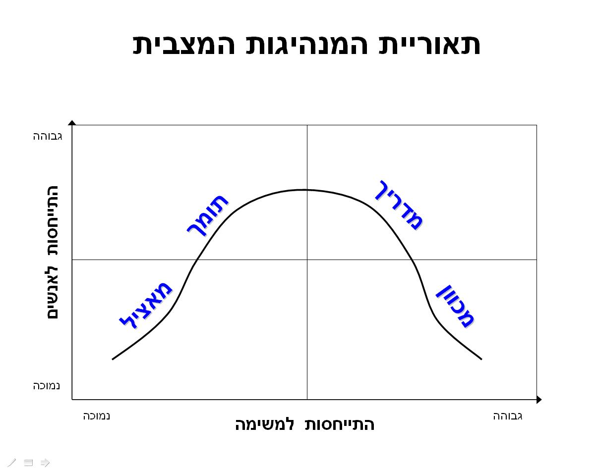 Situational leadership theory by Hersey & Blanchard